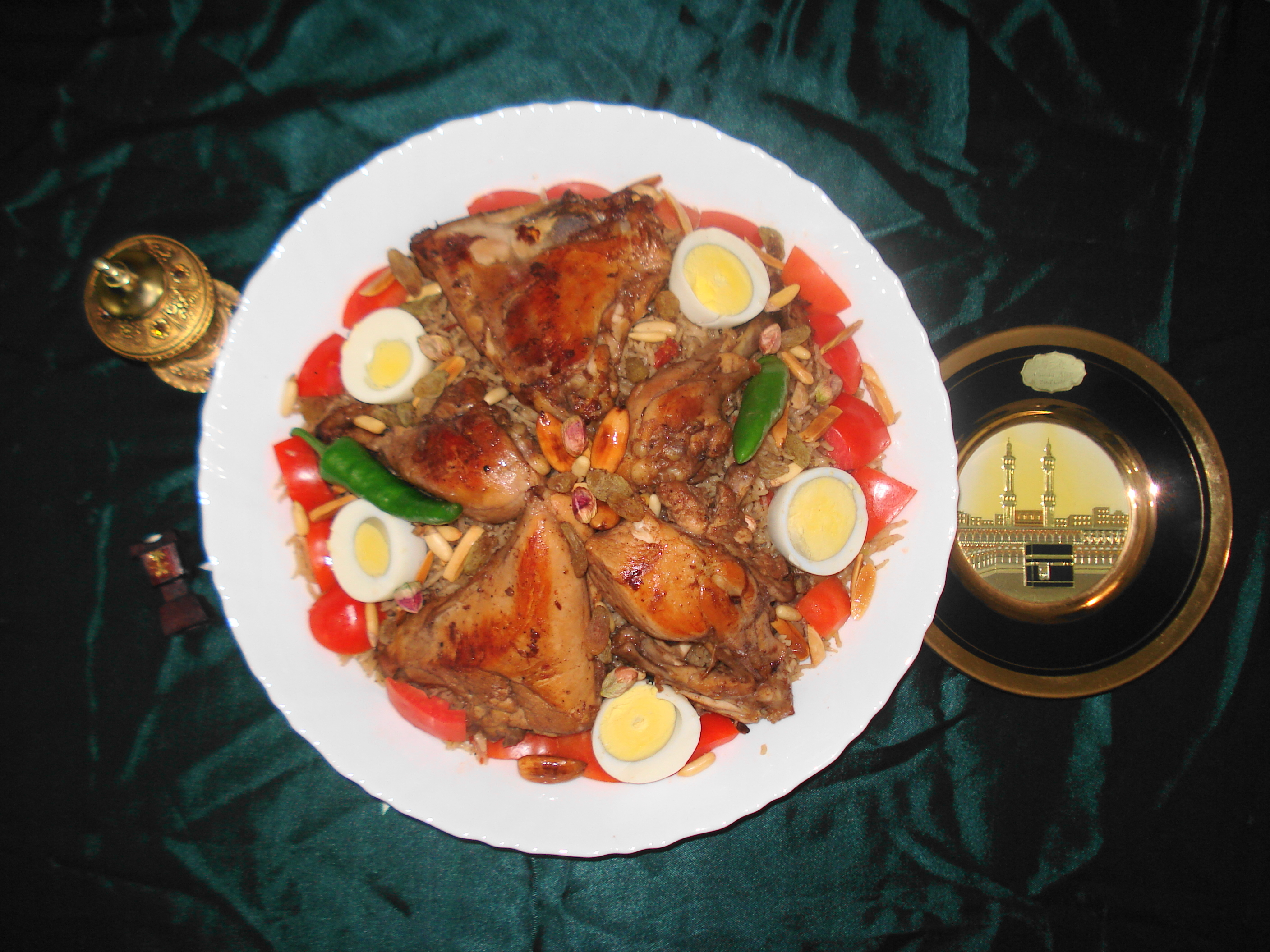 Kabsa is a National Dish of Saudi Arabia